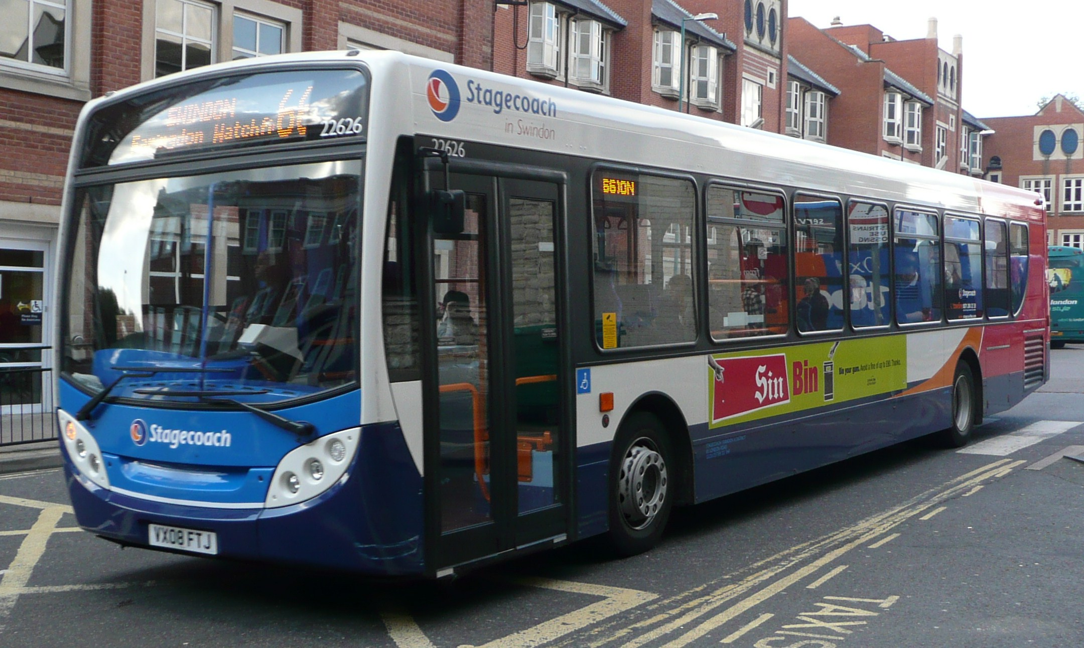 A Stagecoach Swindon bus on route 66 leaving Gloucester Green coach station in Oxford. It is an MAN 18.240 with an Alexander Dennis Enviro300 body, fleet number 22626, registration mark VX08 FTJ.This bus has since been destroyed by a fire at Oxford.